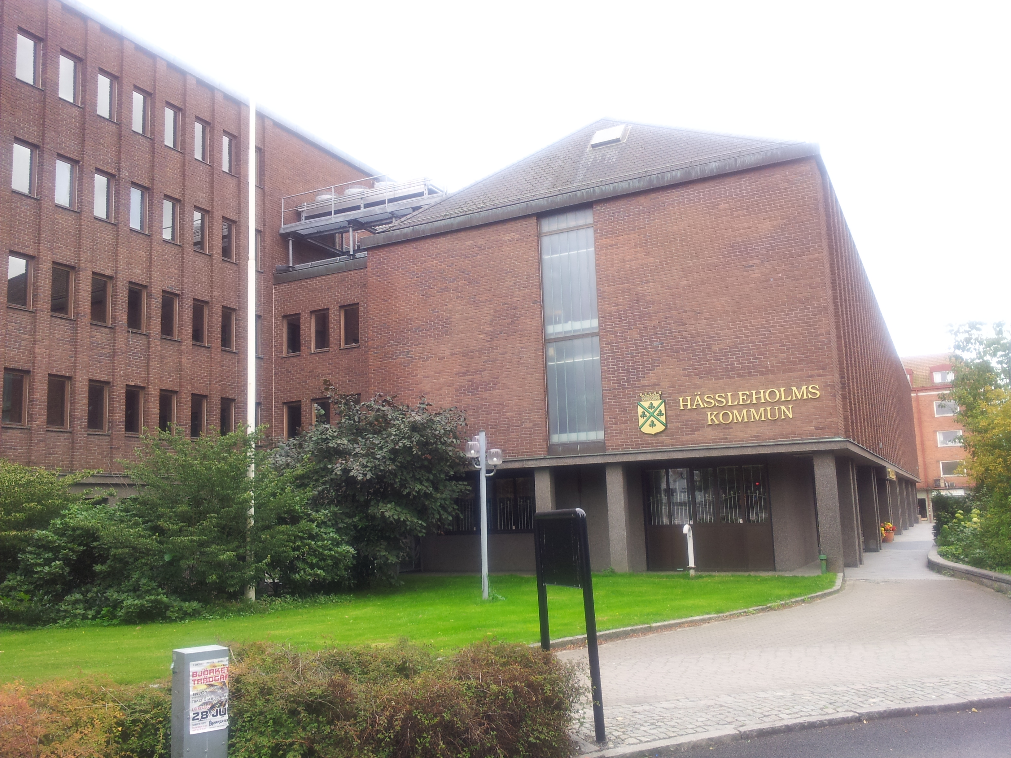 Hässleholm municipal building